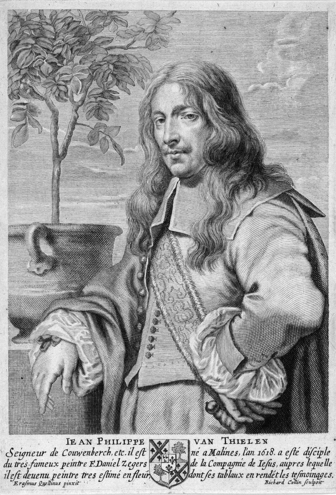 Portrait of Jan Philips van Thielen in Cornelis de Bie's Gulden Cabinet.